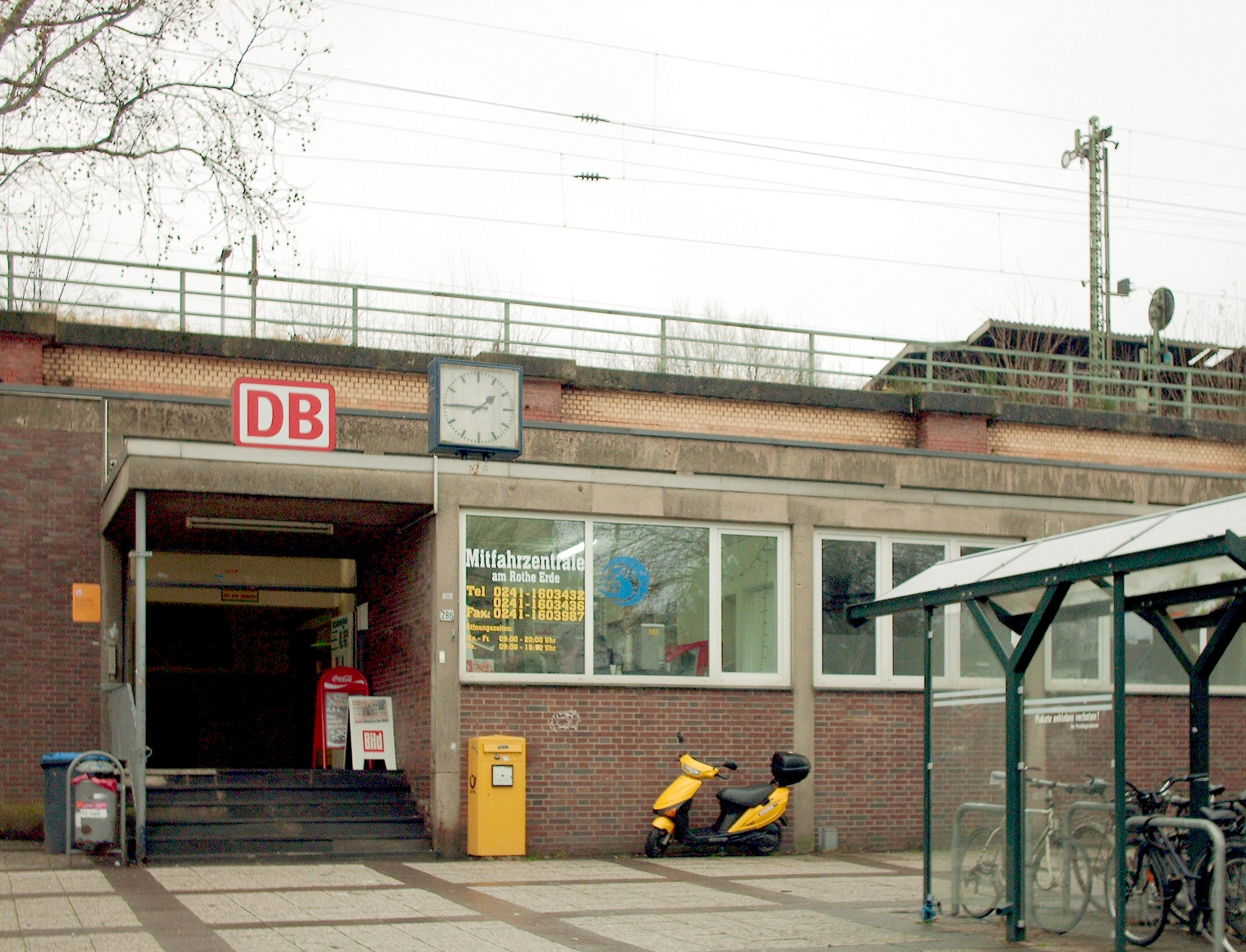 Rothe Erde Station, Aachen, Germany check usage - OpenStreetMap (Info)